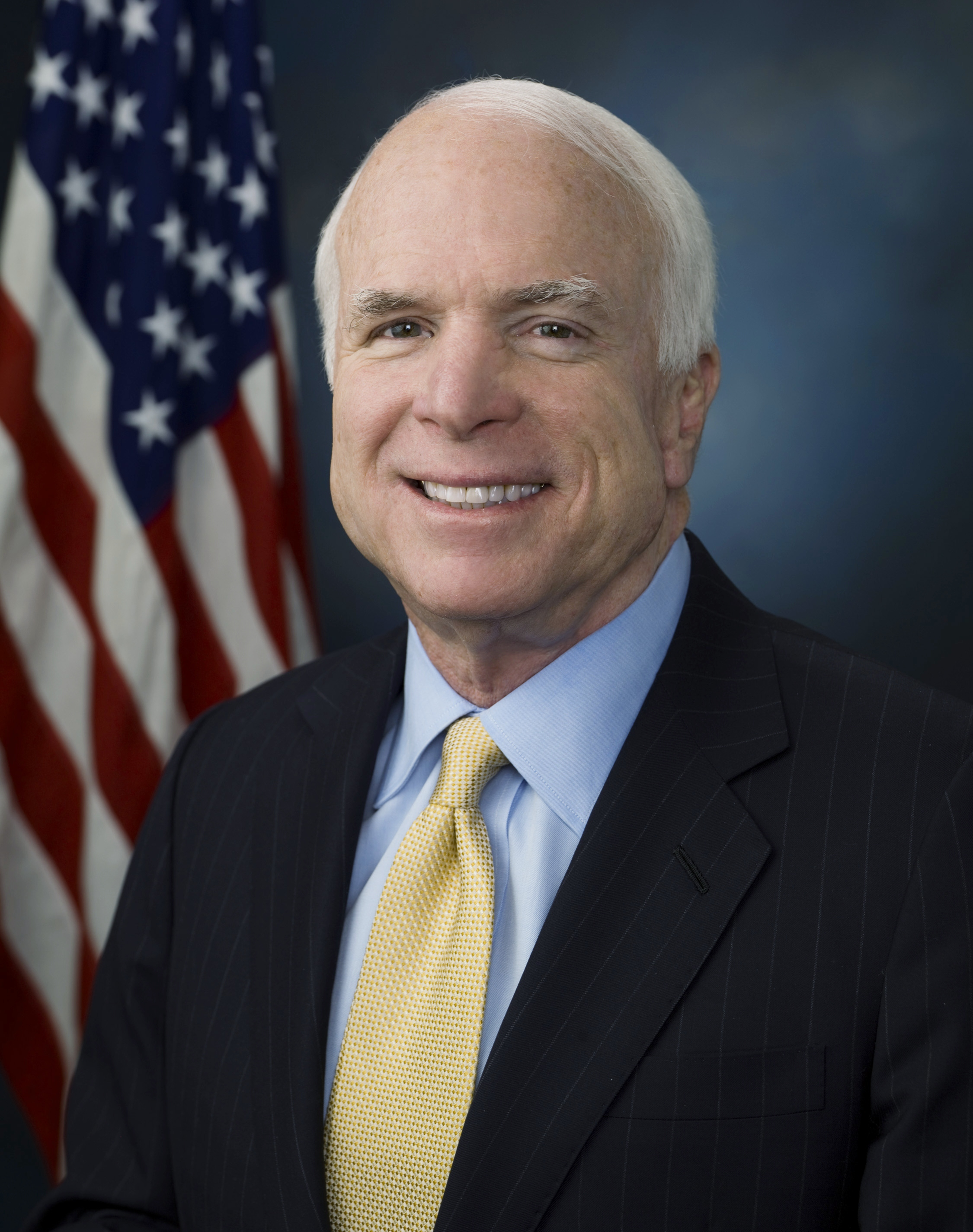 John McCain official photo portrait.